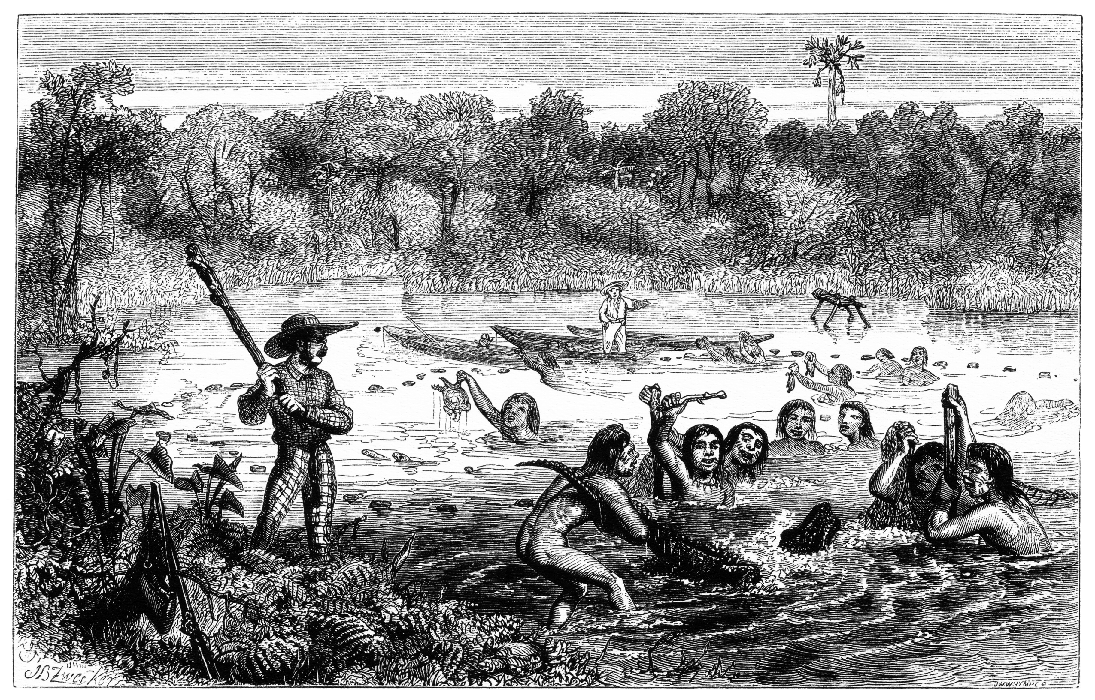 Caption: "TURTLE FISHING AND ADVENTURE WITH ALLIGATOR."